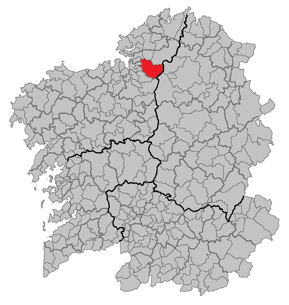 Location map of Monfero, A Coruña, Galicia